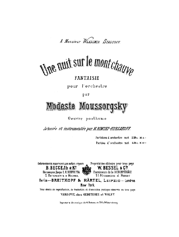 Title page of the score of Rimsky-Korsakov's edition of 'A Night on the Bare Mountain', published by V. Bessel & Co., 1886